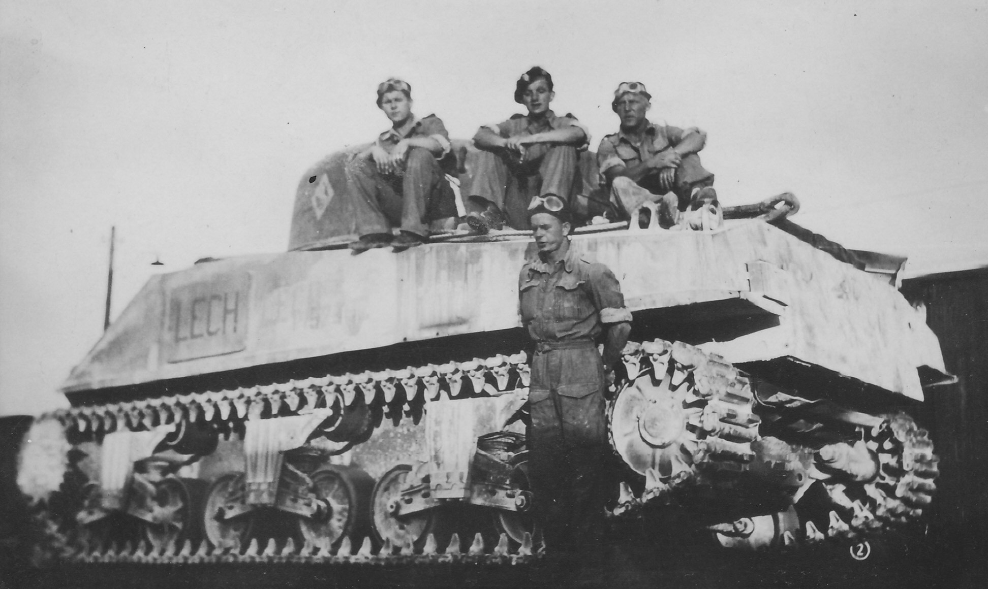 Tank crew of Marian Bronislaw Tomaszewski